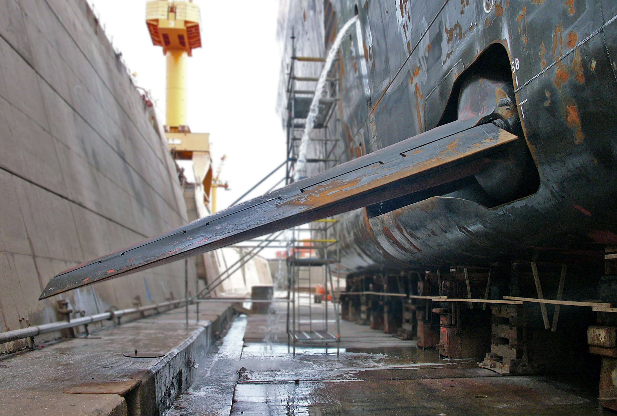 Photo from the German research vessel POLARSTERN stabilizer, extended in dry dock